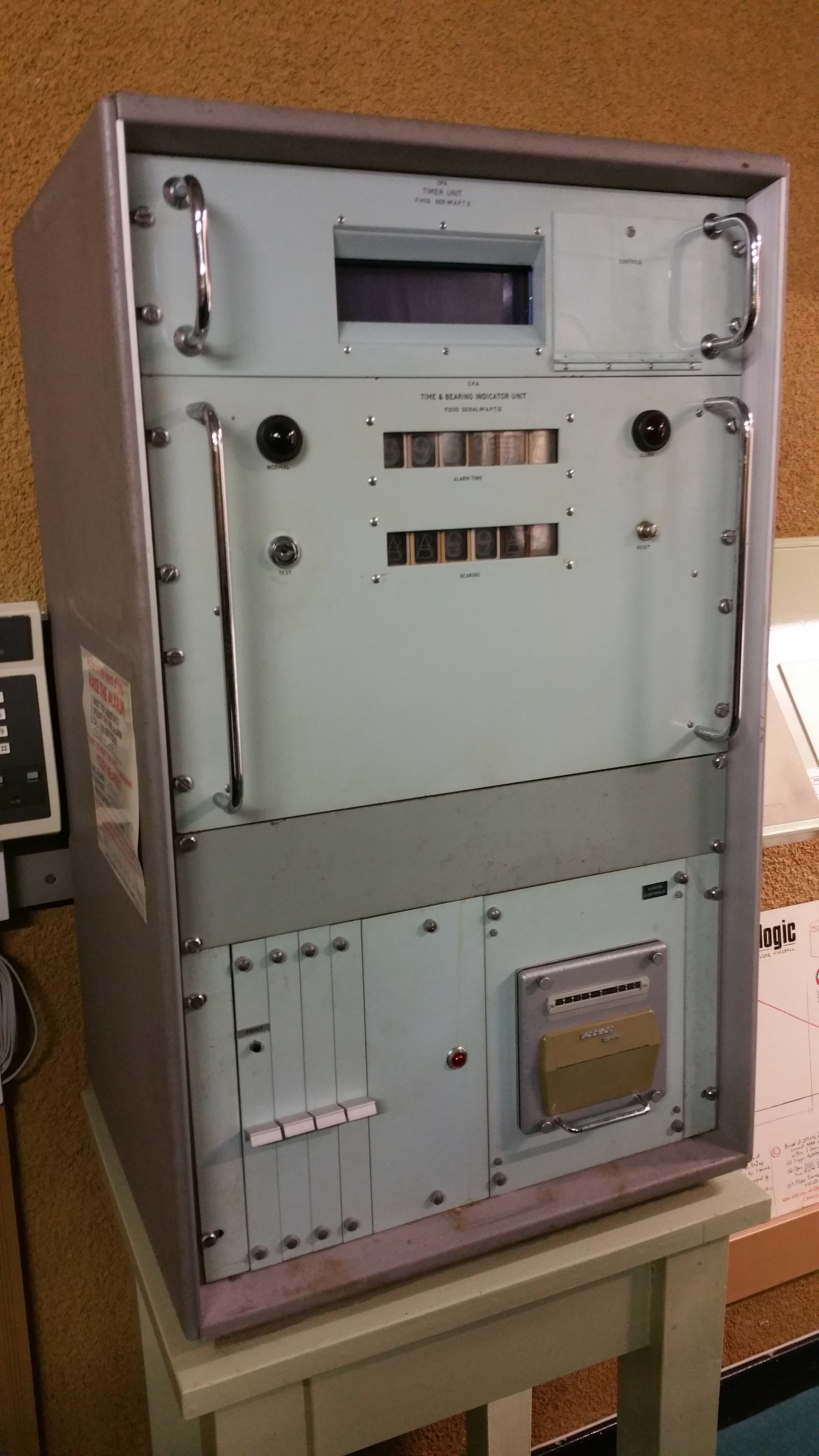 A photograph of an AWDREY device, a desk-mounted automatic detection instrument, located at 13 of the 25 Royal Observer Corps (ROC) controls, across the United Kingdom, during the Cold War. The instruments would have detected any nuclear explosions and indicated the estimated size in megatons.